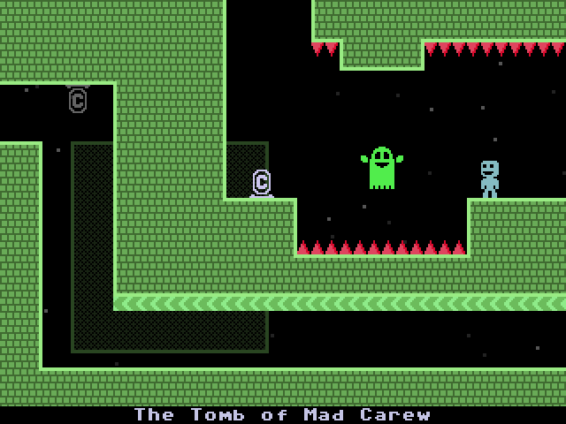 VVVVVV screenshot. Released in 2010, the game was developed by Terry Cavanagh.